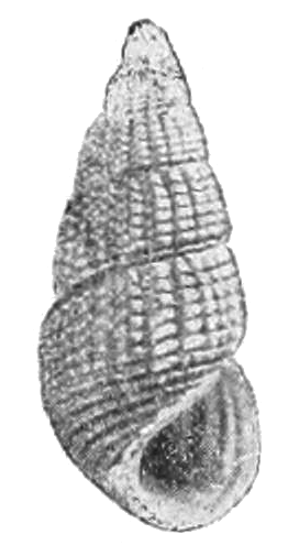 An apertural view of a shell of Tylomelania zeamais.